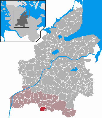 Locator maps of municipalities in Schleswig-Holstein - District Rendsburg-Eckernförde